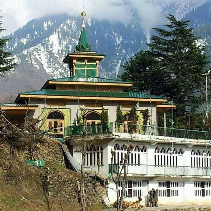 laar shareef